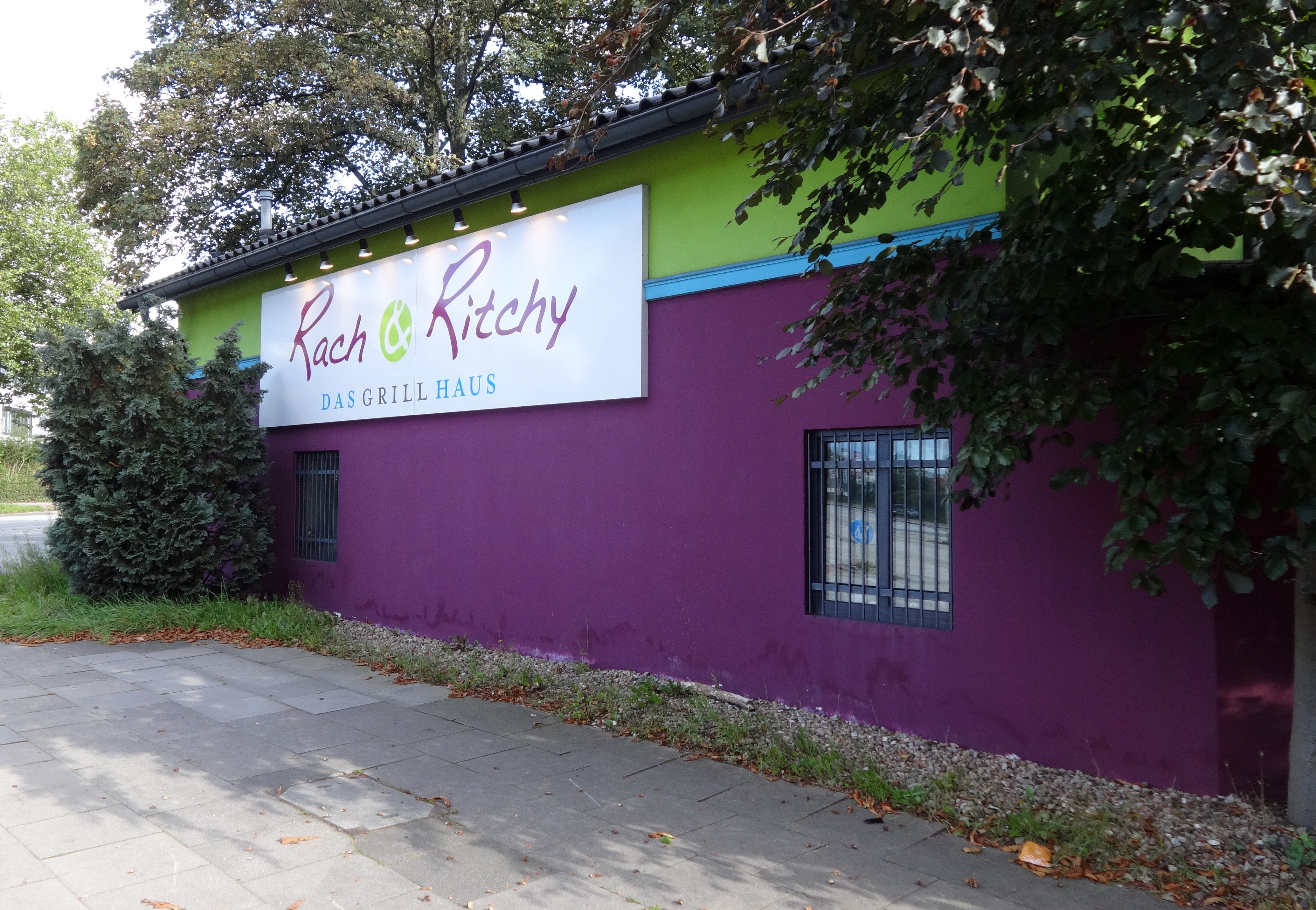 rach and ritchy restaurant